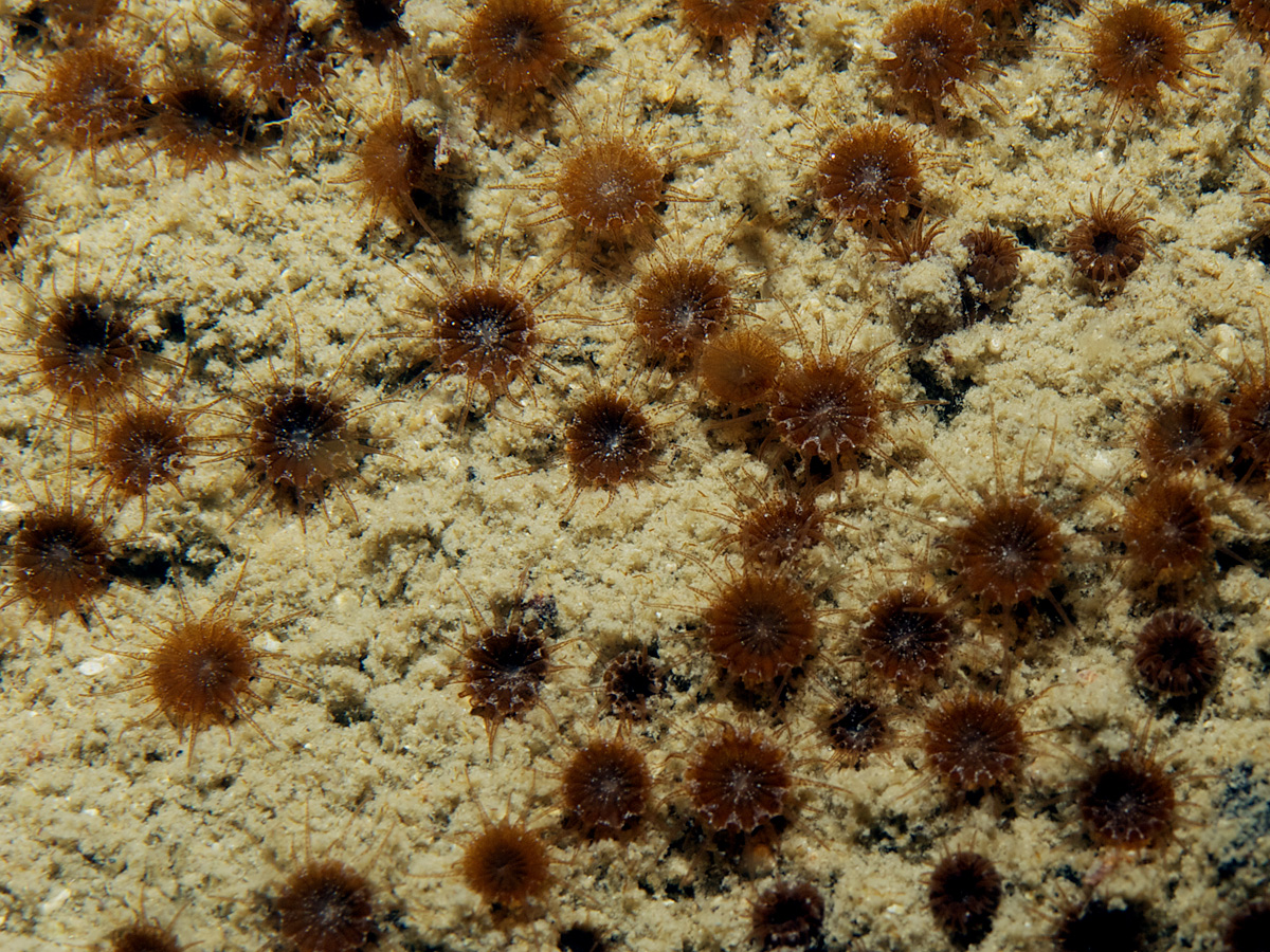 The anthozoan Isozoanthus sulcatus, Lough Hyne, Co. Cork, Ireland.